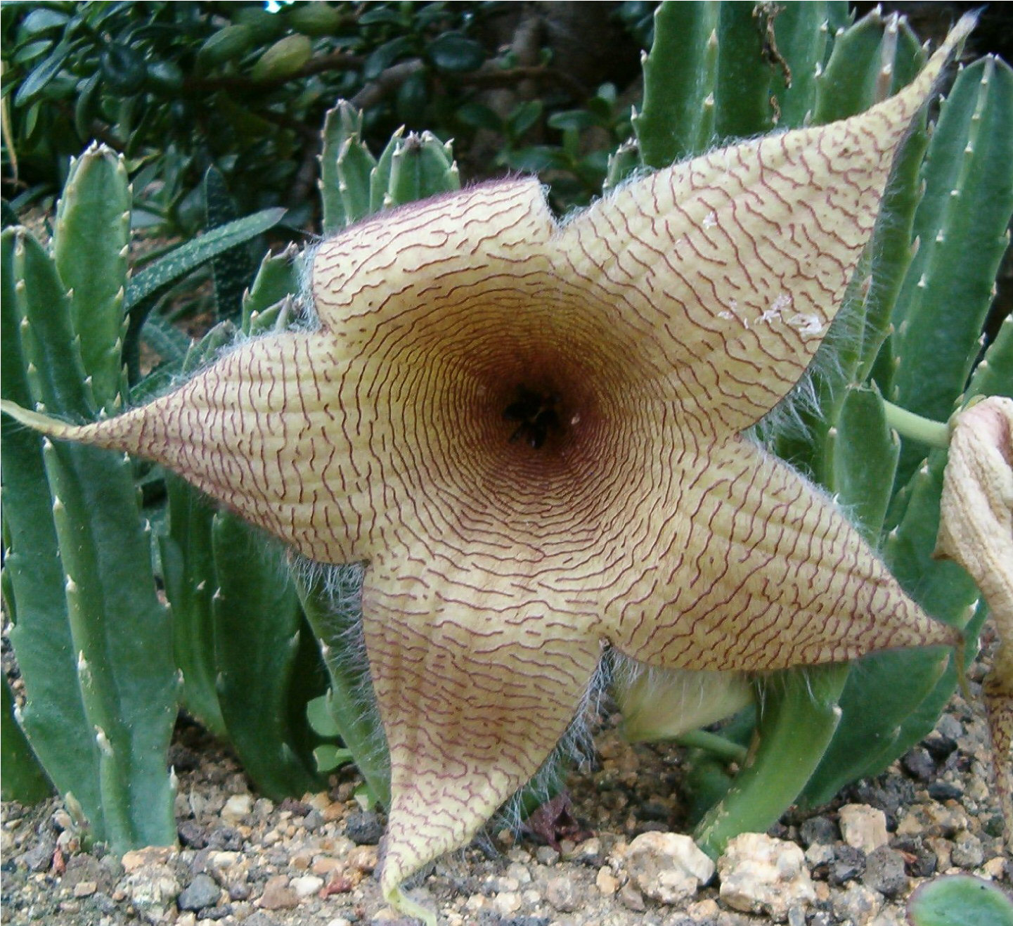 Habitus and Flower Location: Botanical Gardens Berlin